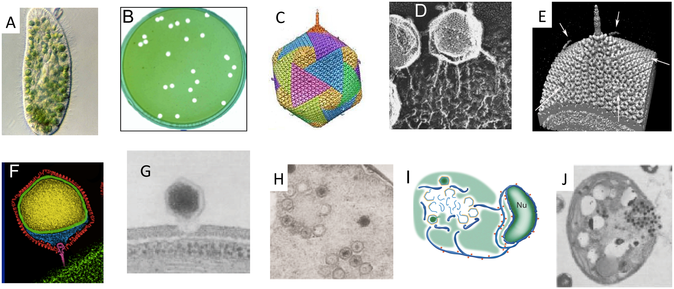 (A) Paramecium bursaria and its symbiotic chlorella cells. (B) Plaques formed by PBCV-1 on a lawn of Chlorella variabilis. (C) Five-fold averaged cryo-electron micrograph of PBCV-1 reveals a long narrow cylindrical spike structure at one vertex and fibers extending from one unique capsomer per trisymmetron. (D) PBCV-1 attached to the cell wall as viewed by the quick-freeze, deep etch procedure. Note the virions attached to the wall by fibers. (E) Surface view of the PBCV-1 spike structure and fibers. (F) Initial attachment of PBCV-1 to a C. variabilis cell wall. (G) Attachment of PBCV-1 to the algal wall and digestion of the wall at the point of attachment. This occurs within 1–3 minutes postinfection (PI) (H) Virion particles assemble in defined areas in the cytoplasm named virus assembly centers at ~4 hour PI. Note that both DNA containing (dark centers) and empty capsids. (I) A model depicting PBCV-1 assembly into infectious particles including generation of nuclei- derived cisternae decorated with ribosomes (red spheres), which serve as precursors (dark blue) for single bilayer viral membranes (light blue) in the viral assembly centers. (J) Localized lysis of cell plasma membrane and cell wall and release of progeny viruses at ~8 hours PI.